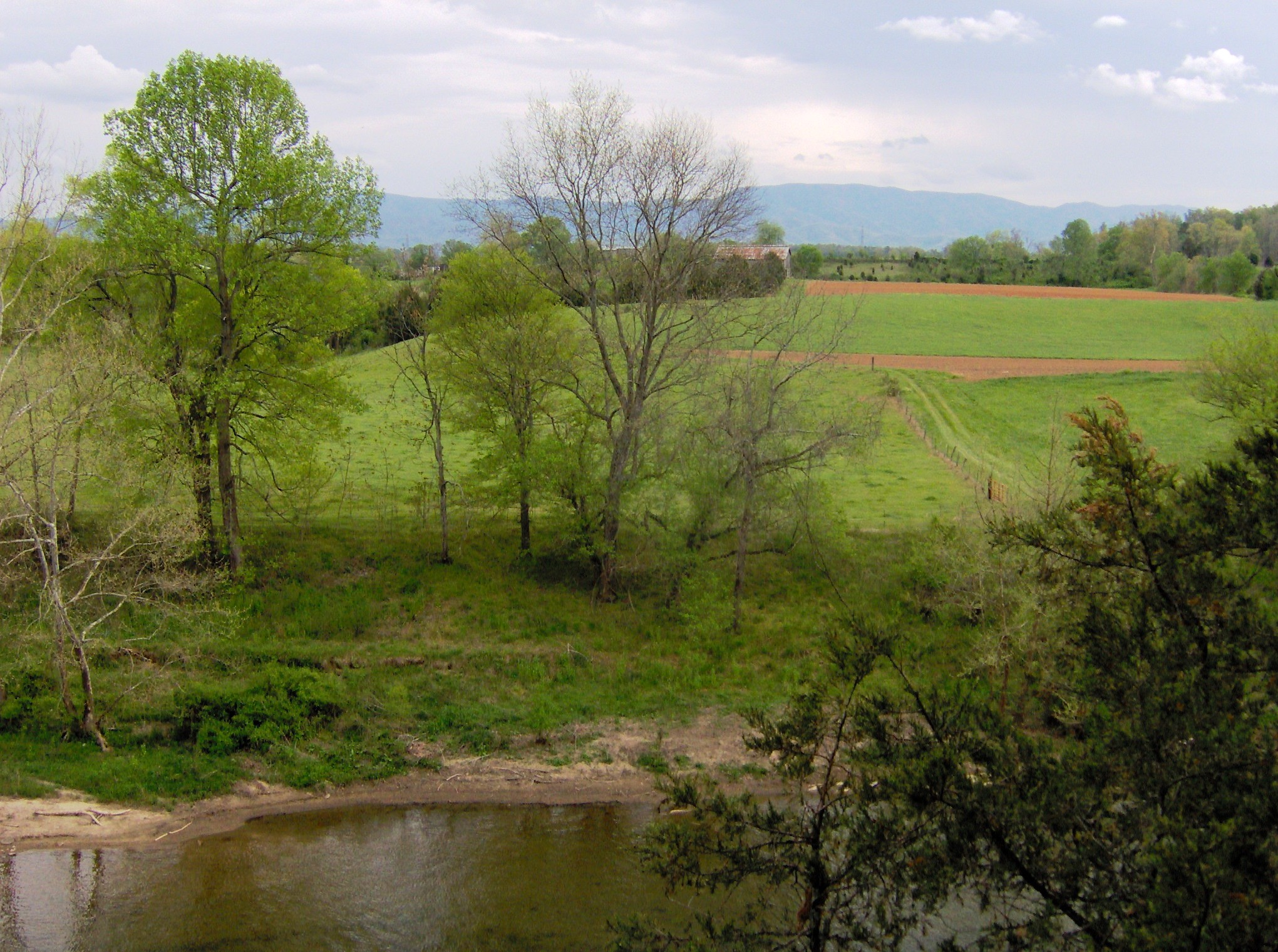 View from the bluffs above the Nolichucky River at Davy Crockett Birthplace State Park in Greene County, Tennessee, in the southeastern United States. This overlook can reached via short hiking trail from the park's campground. The Nolichucky River is immediately below. The fields are part of the Crum Farm, one of the four historic farms that comprise the Earnest Farms Historic District.